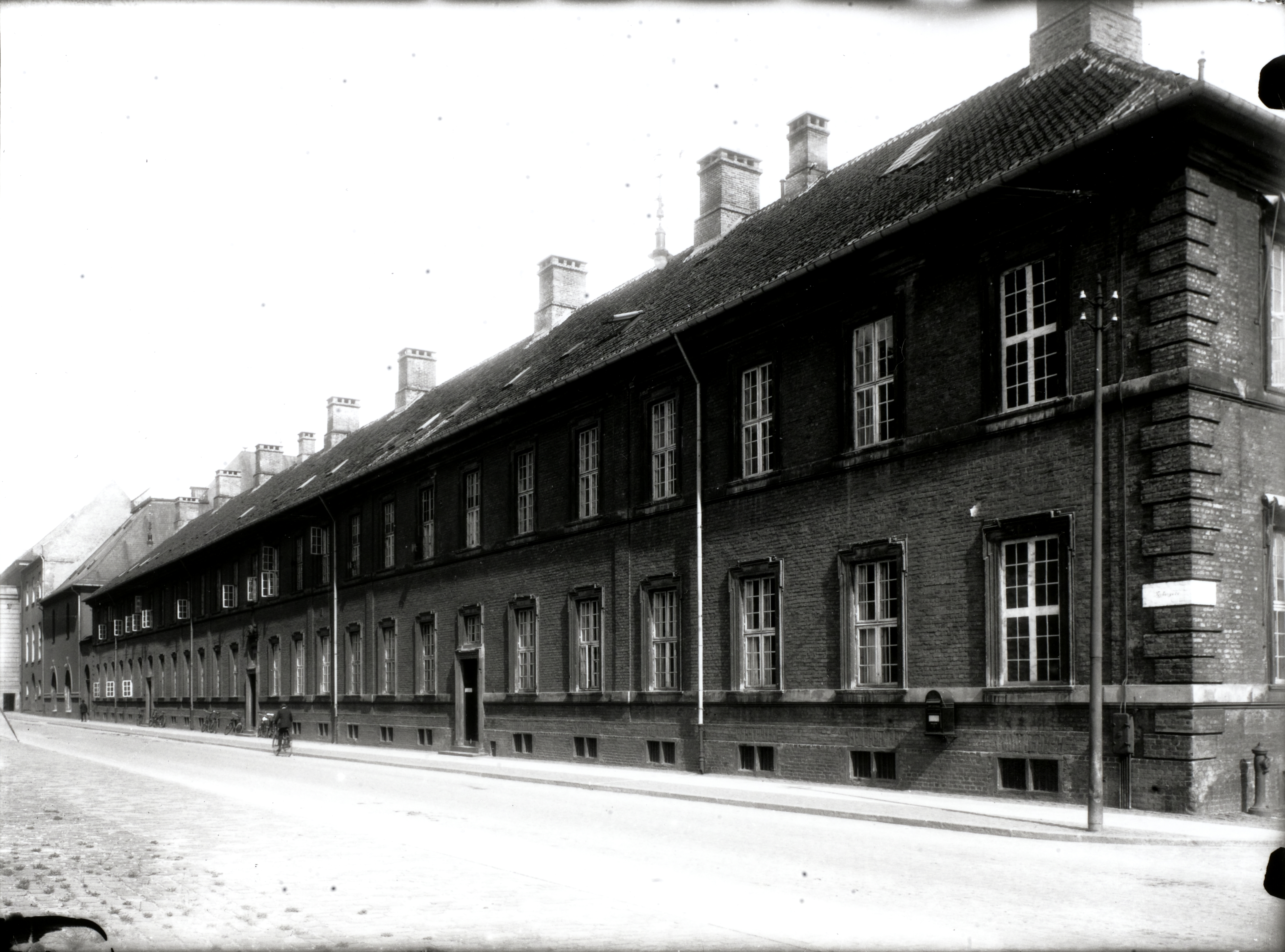 Tøjhusgade along the ministerial offices